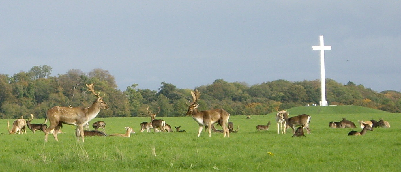 Deer grazing in the Phoenix Park in Dublin, with the Papal Cross in the background